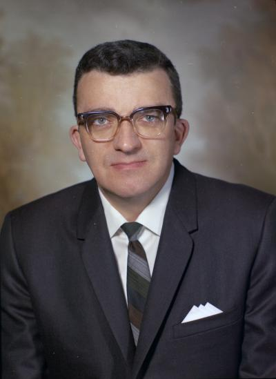 Senator Mike McCormack, 1967